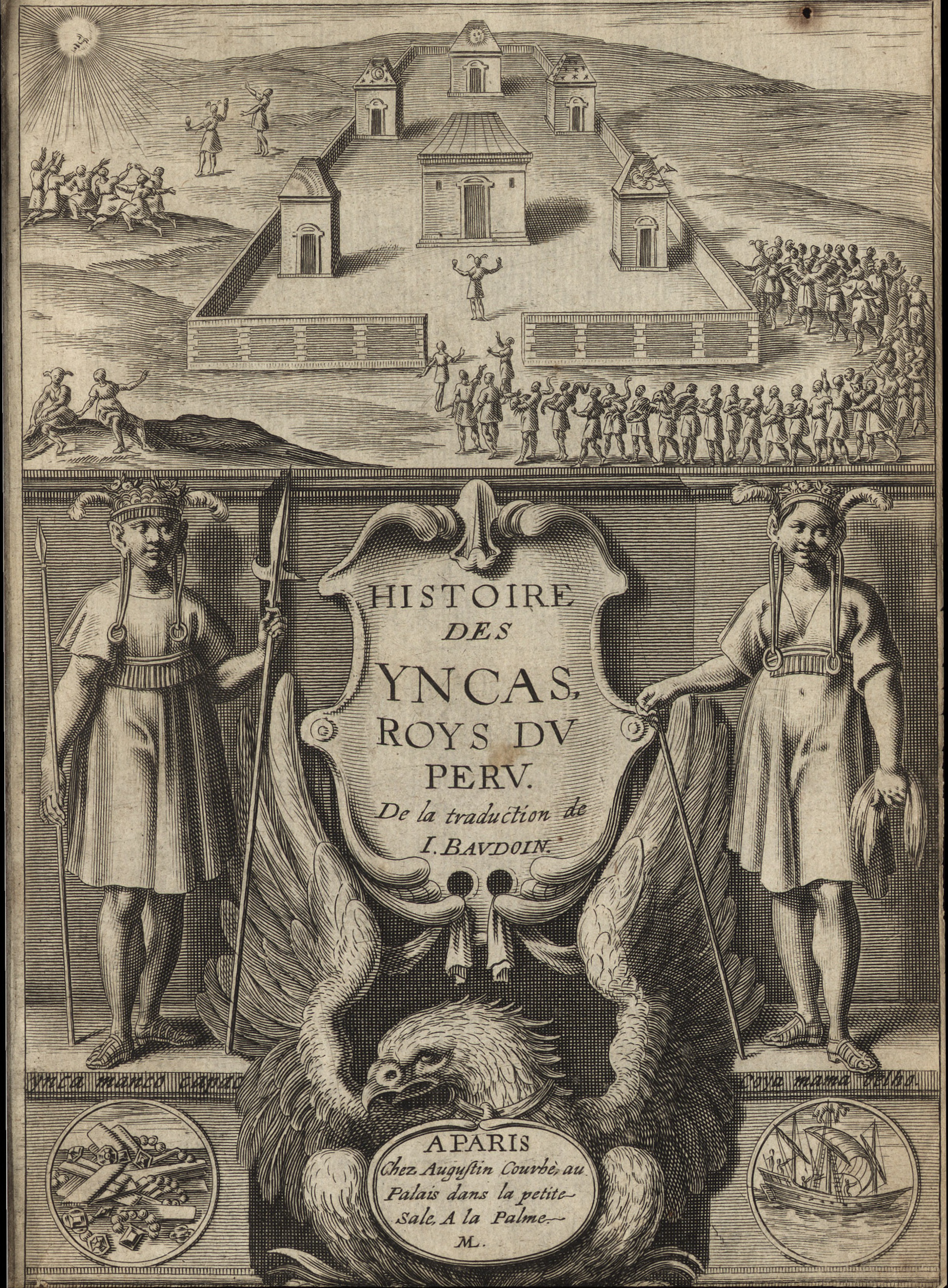 Title: Le commentaire royal, ou, L'histoire des Yncas, roys du Peru : contenant leur origine, depuis le premier Ynca Manco Capac, leur establissement, leur idolatrie, leurs sacrifices, leurs vies, leurs loix, leur gouuernement en paix & en guerre ... : ensemble vne descriptton particuliere des animaux, des fruicts, des mineraux, des plantes, & des singularitez du païs : oeuure curieuse, & tout à faict necessaire à l'intelligence de l'Histoire des Indes Year: 1633 (1630s) Authors: Vega, Garcilaso de la, 1539-1616 Baudoin, Jean, 1590?-1650 Courbé, Augustin Subjects: Incas Indians of South America Publisher: A Paris : Chez Augustin Courbé ... Text Appearing Before Image: \éf.:. I • •• --♦^•f*: «^ • • Text Appearing After Image: APARIS Y(\. s^ÊuCniezAuju/iin Courbé,au:u ,li;M; jpa/ais . — ^-^ -^-^-- ■■■ÉHH rrw m-^ «4/gri_33125010862510